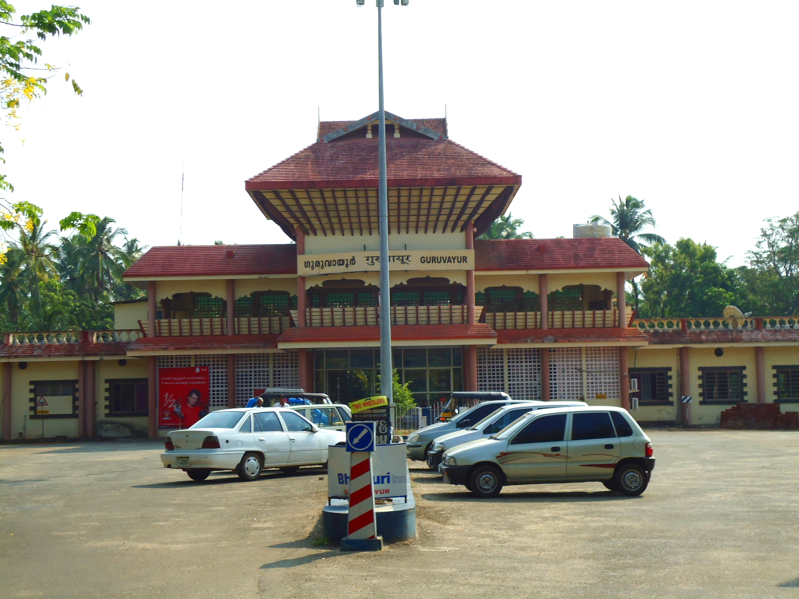 Guruvayur Railway station Entrance